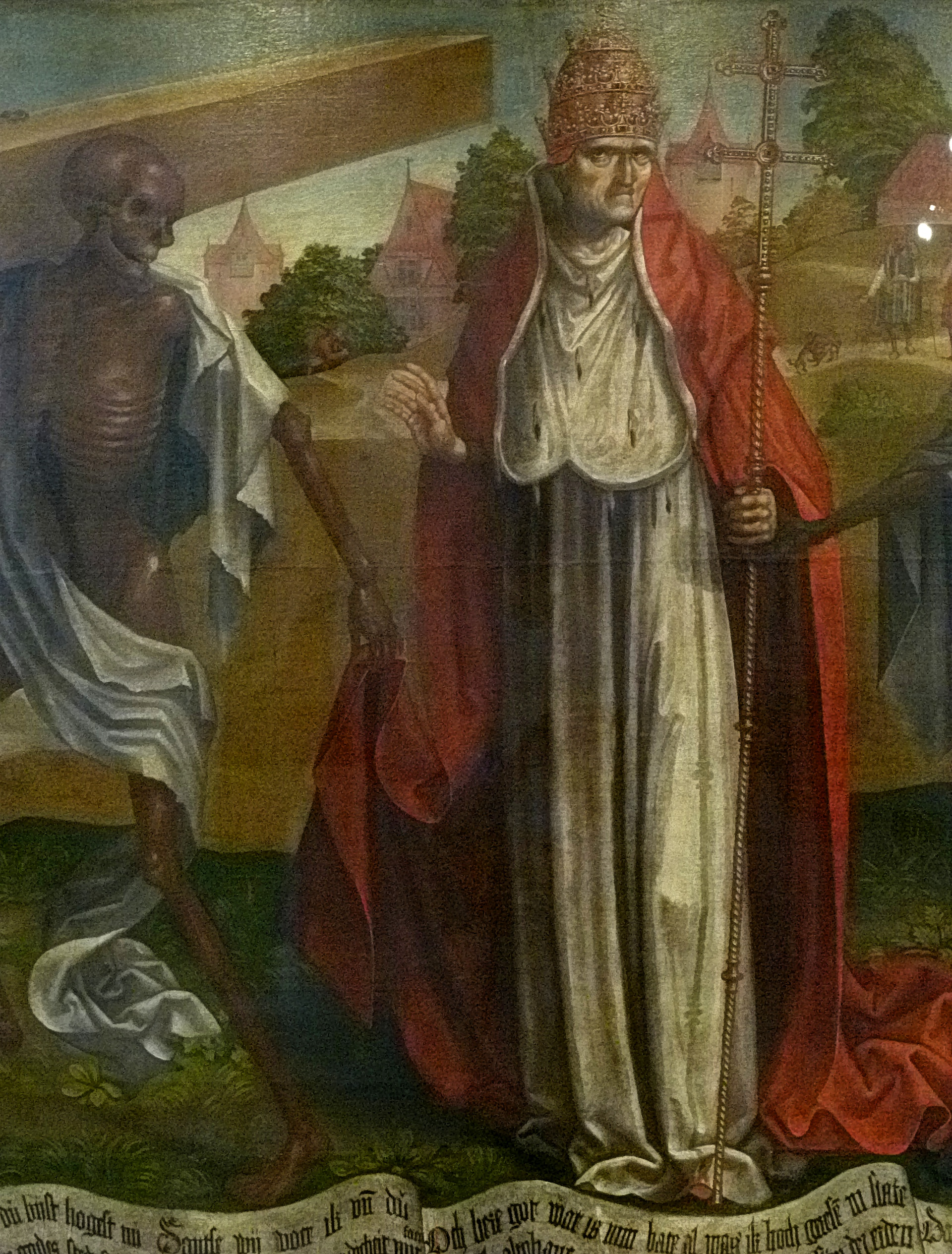 "Dance Macabre" , workshop of Bernt Notke (end 15th century); Death and the Pope; Niguliste Museum, Tallinn